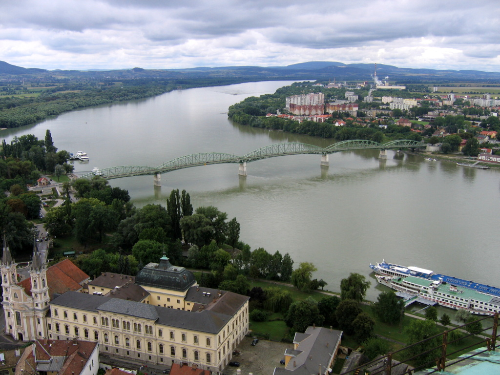 Bridge of Maria Valeria which connects Esztergom (HU) and Štúrovo (SK)